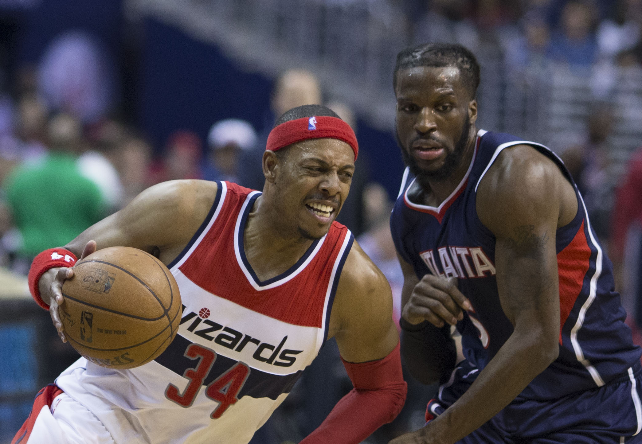 Hawks at Wizards 5/9/15